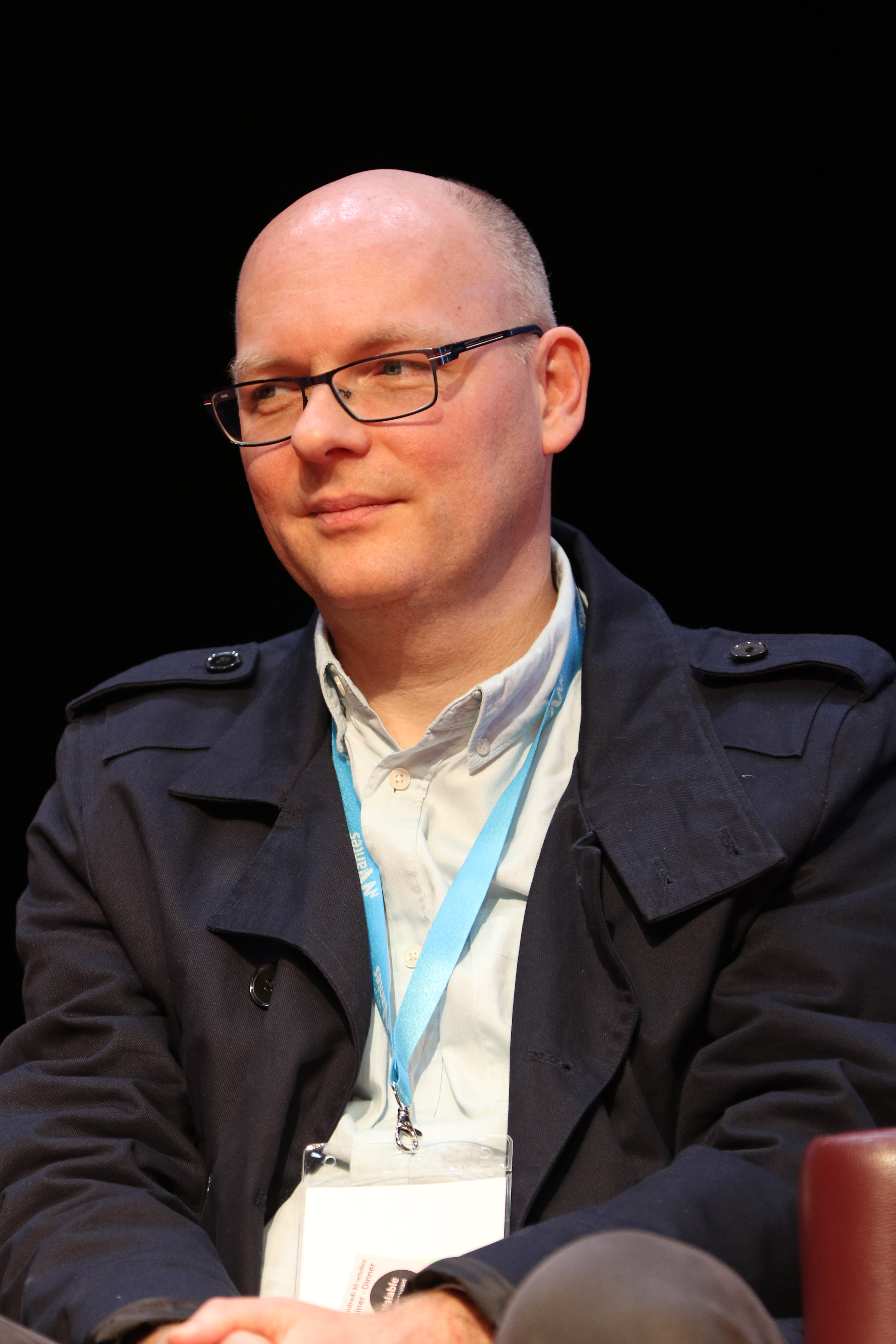 photograph taken at the 2015 edition of the "Utopiales" of Nantes.